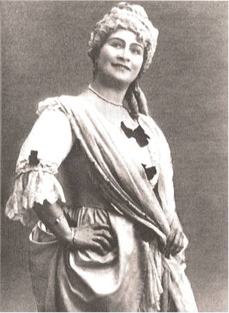 Photo of russian opera singer Nadezhda Obukhova as Pauline in “The Queen of Spades” (1916).